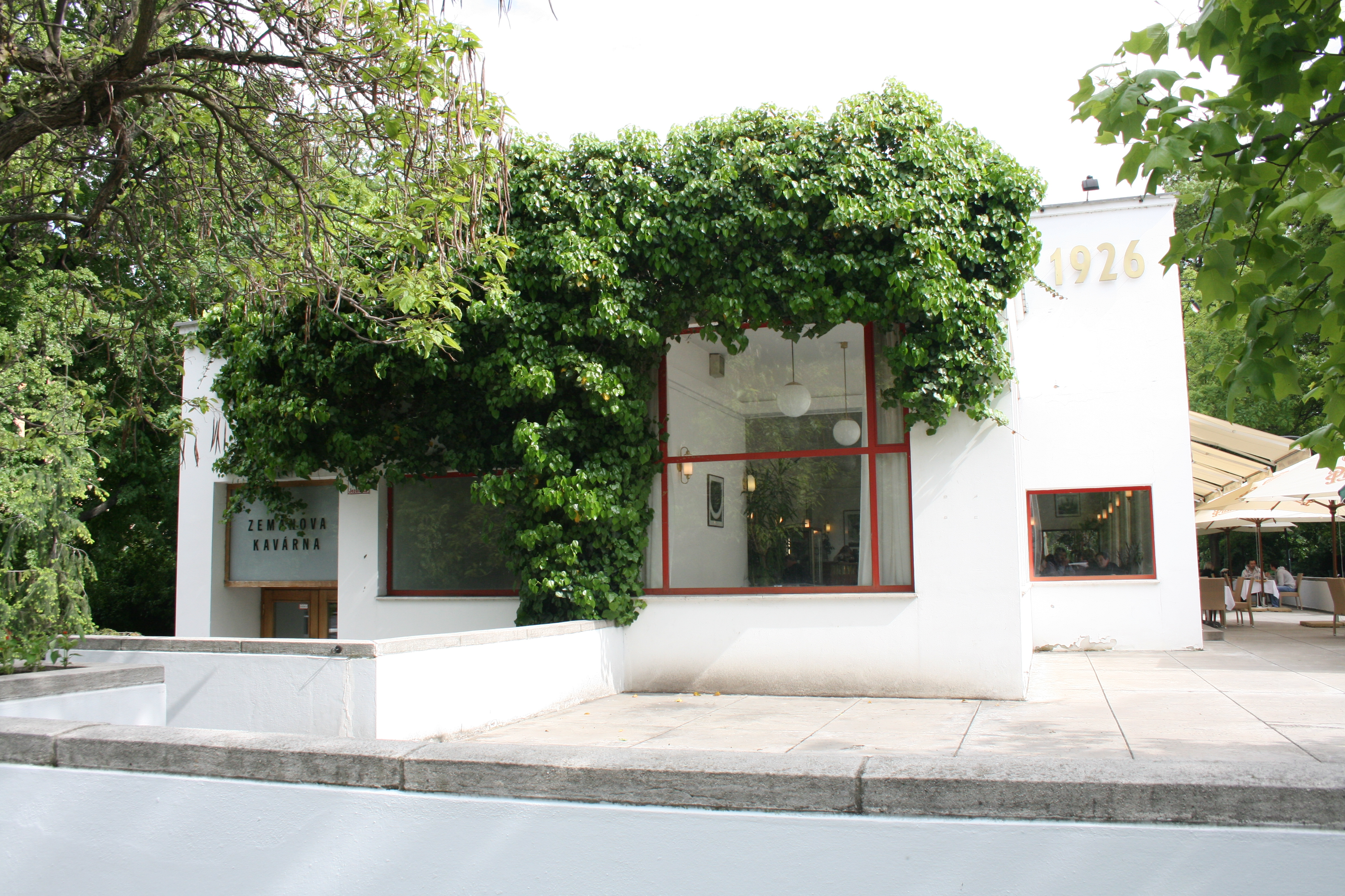 Zeman's café, functionalist building by Bohuslav Fuchs, re-build in 1995.